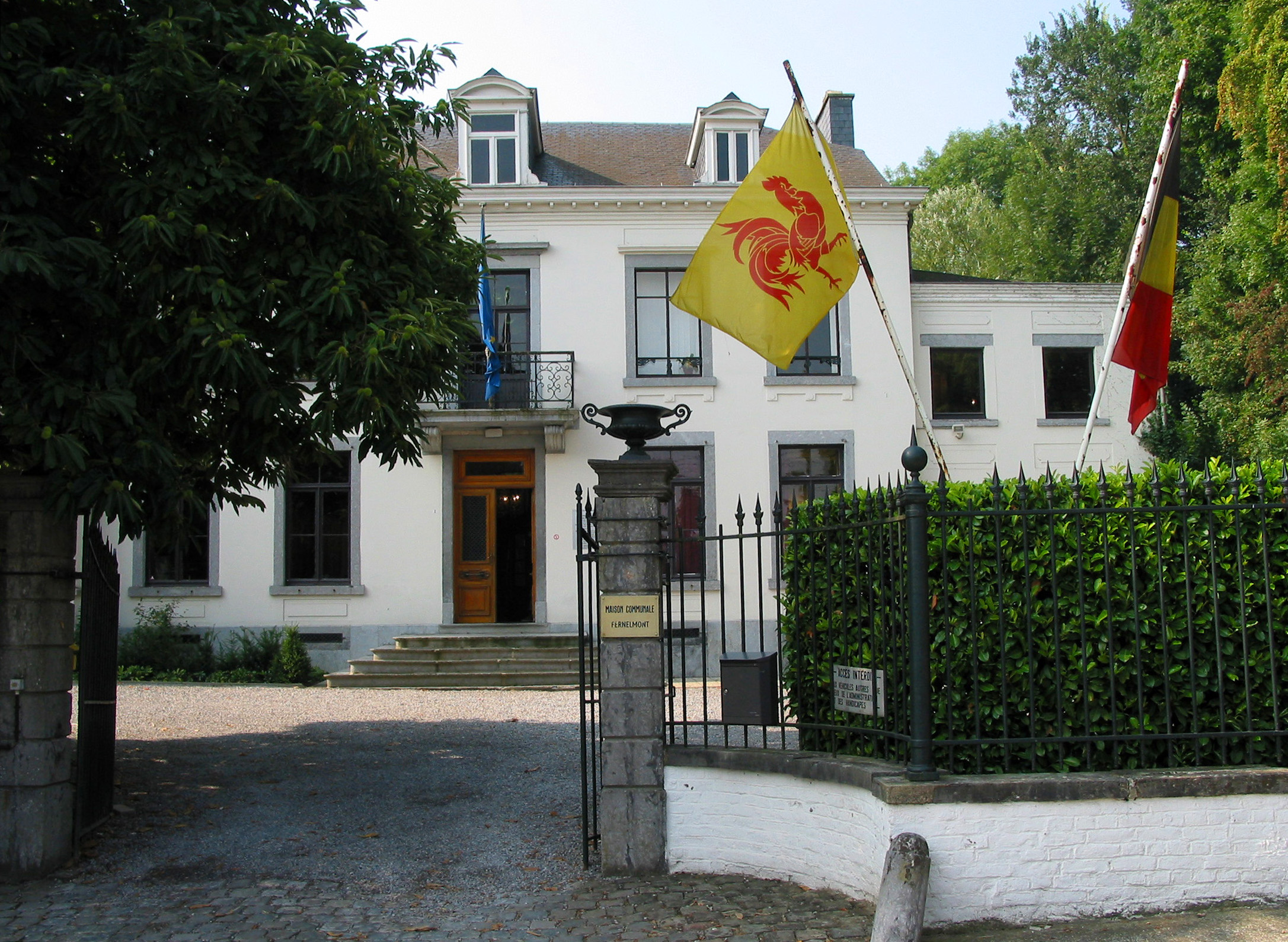 Noville-les-Bois (Belgium), the Fernelmont entity communal house. Walon: Novile-lès-Bwès (Bèljike), li mojon comunale di l’entitè di Fèrnèlmont.